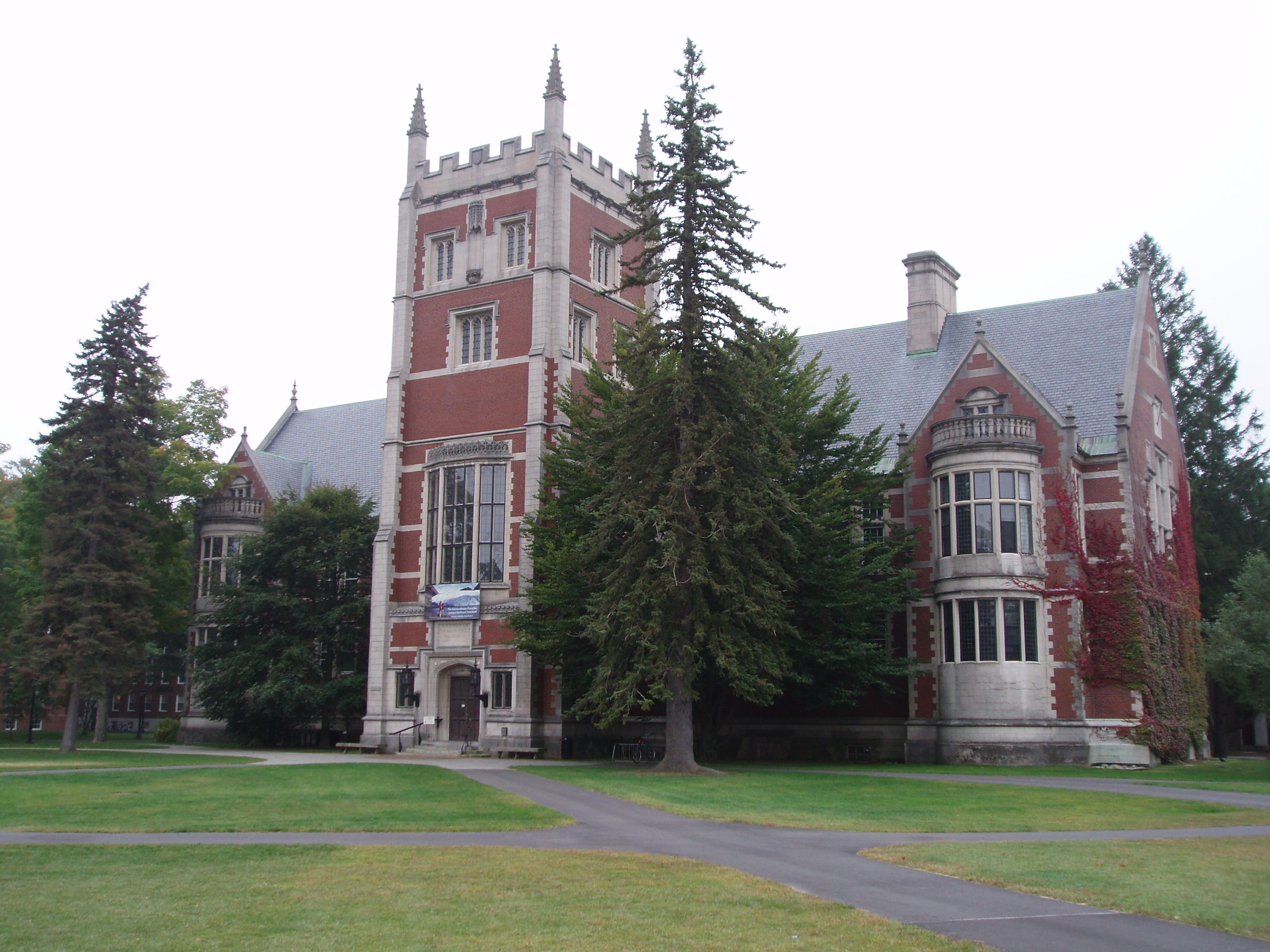 The main building on the Bowdoin campus.